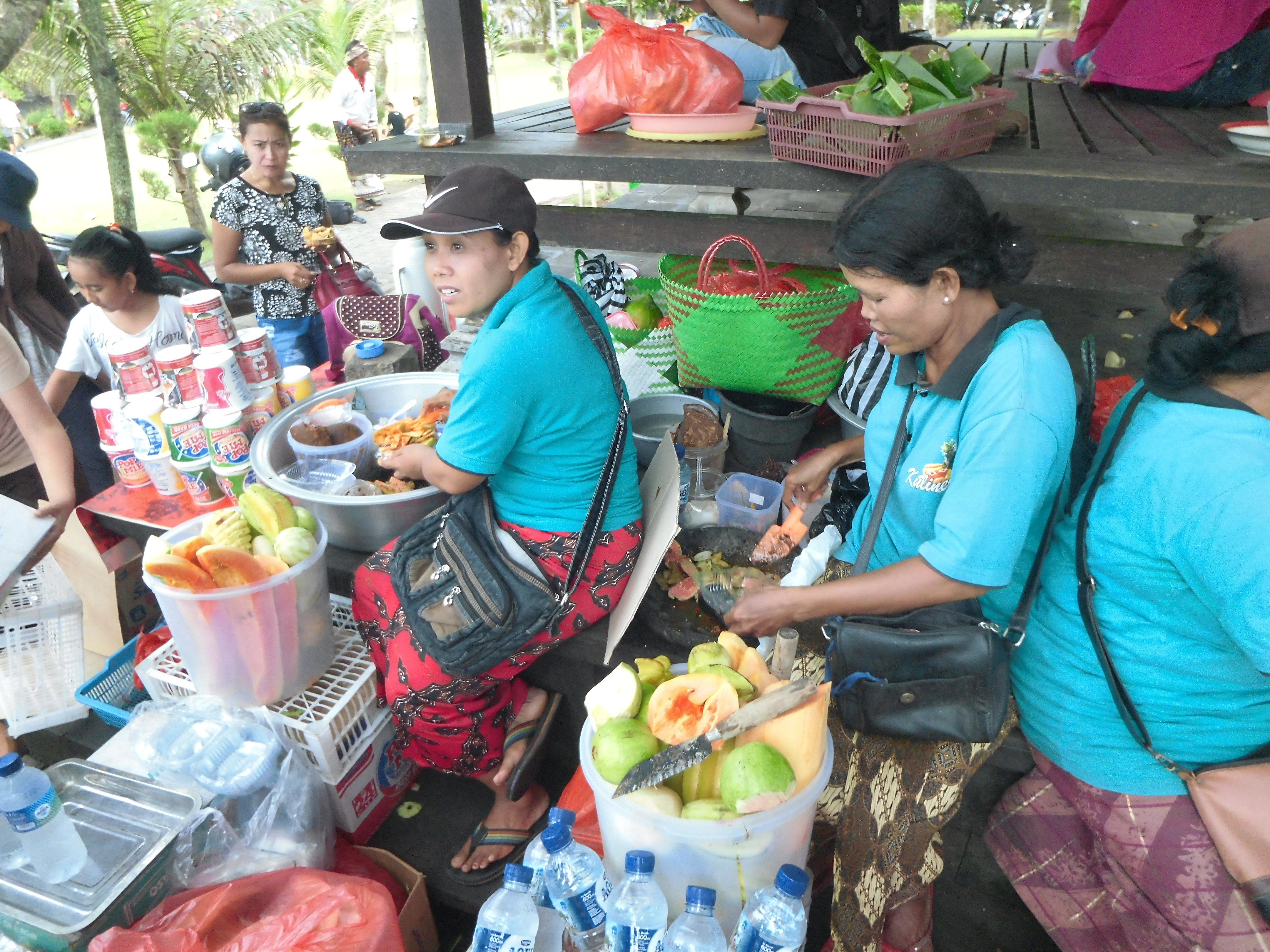 Balinese women preparing and selling rujak buah. Balinese rujak buah (fruit rujak) is pieces of tropical fruits served in palm sugar and spicy chili sauce. Tanah Lot, Bali, Indonesia.